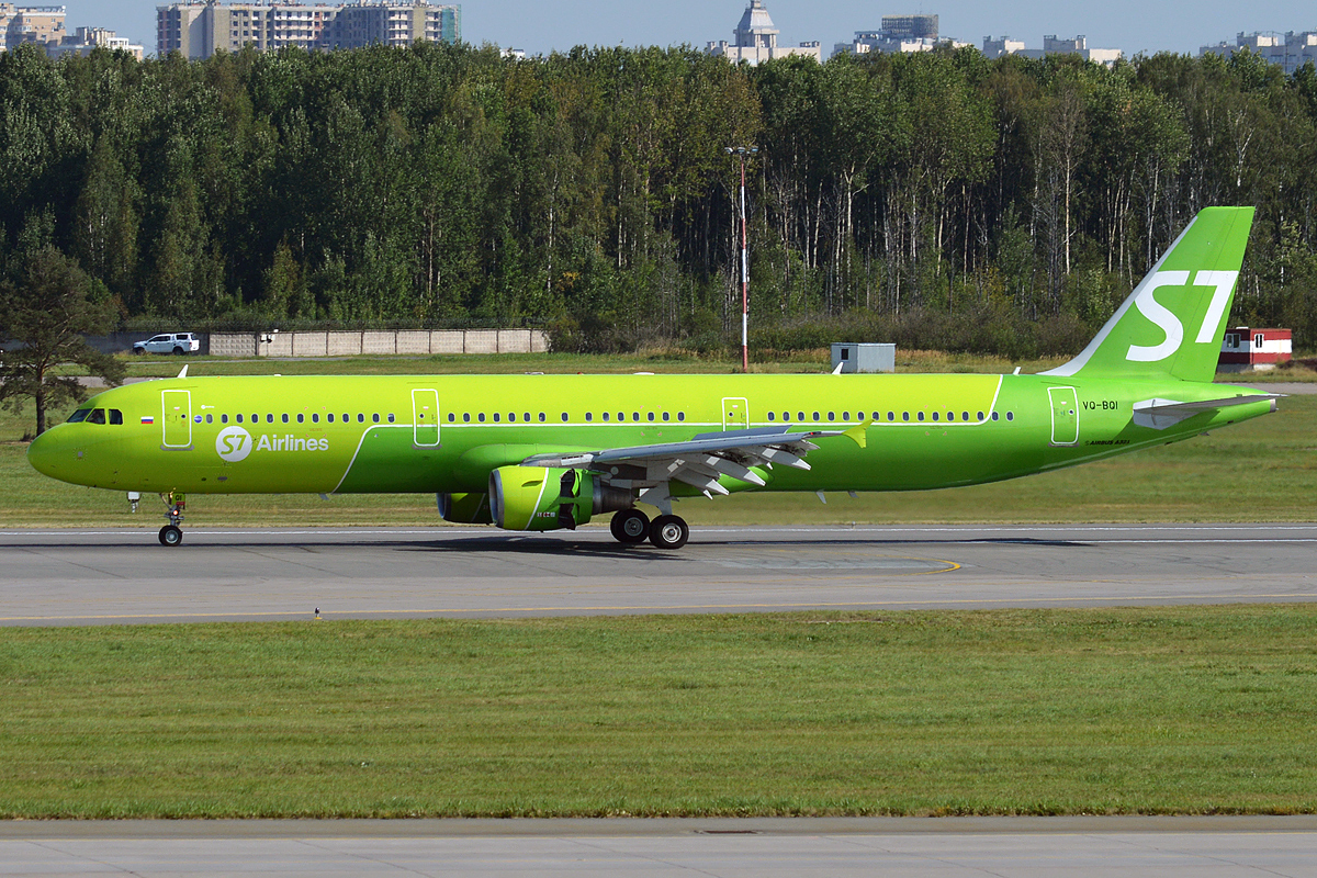 S7 Airlines, VQ-BQI, Airbus A321-211